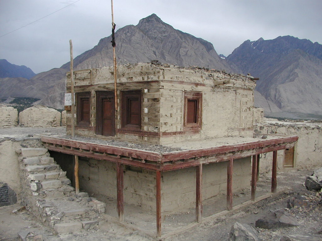 Mosque at the Skardu Fort, Skardu. Wikipedia article on Skardu Wikipedia article on Skardu Fort Image by Waqas Usman. More images at and